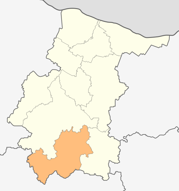 Map of Mezdra municipality, Vratsa Province